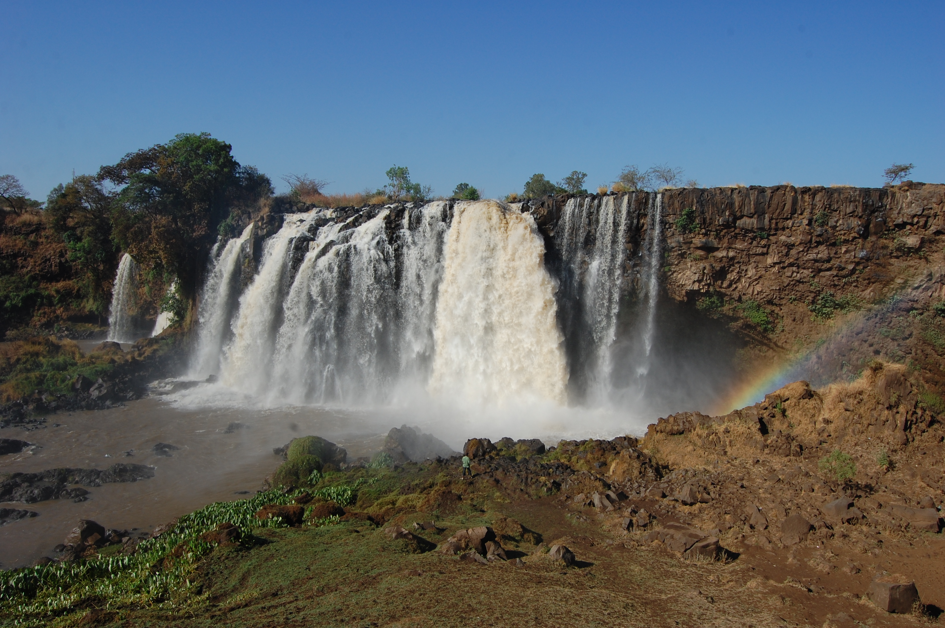 I need to come back to Ethiopia after the rainy season - at full spate the falls would be the whole width of this rockface